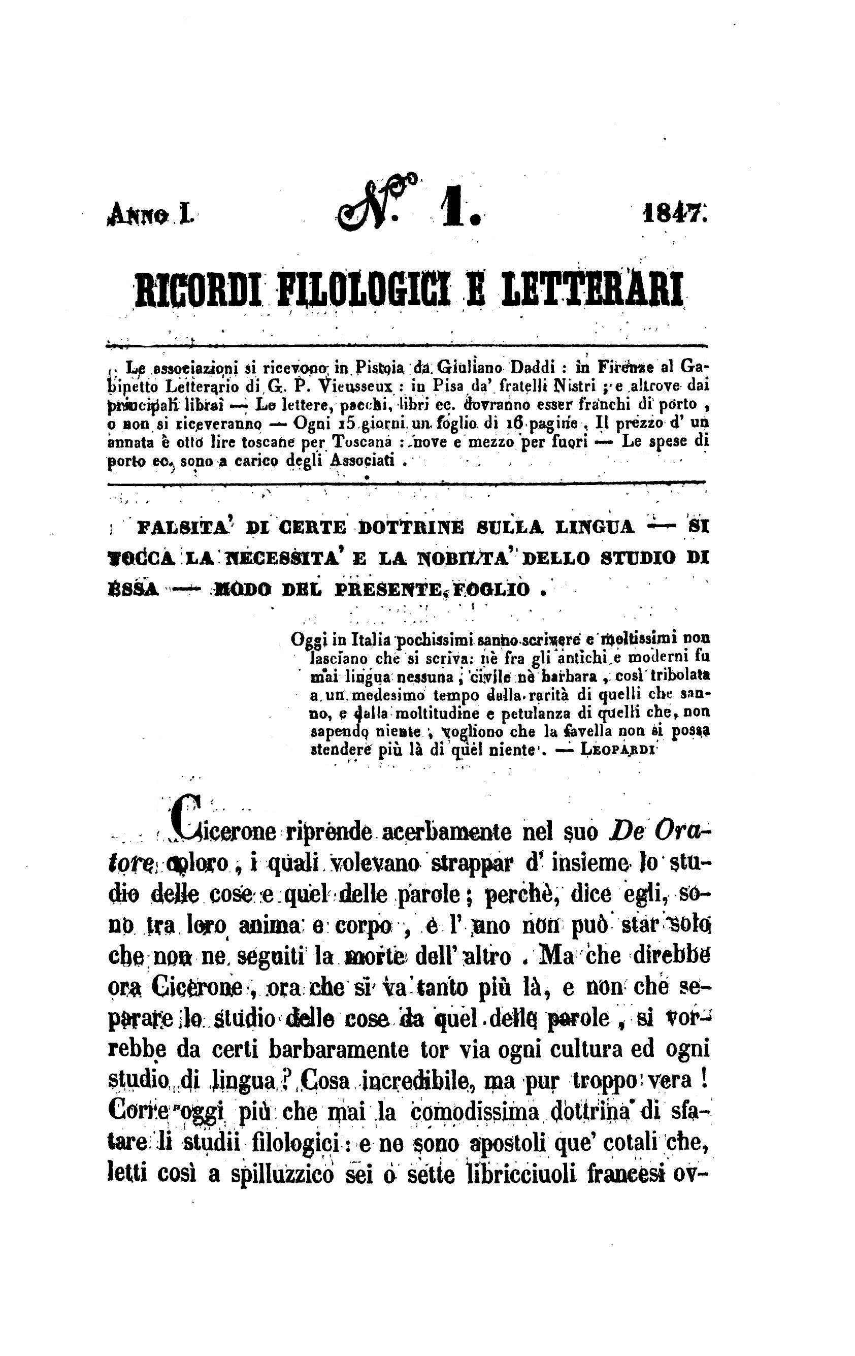 first page of Pietro Fanfani philological revue Ricordi Filologici e Letterari n° 1, 1847